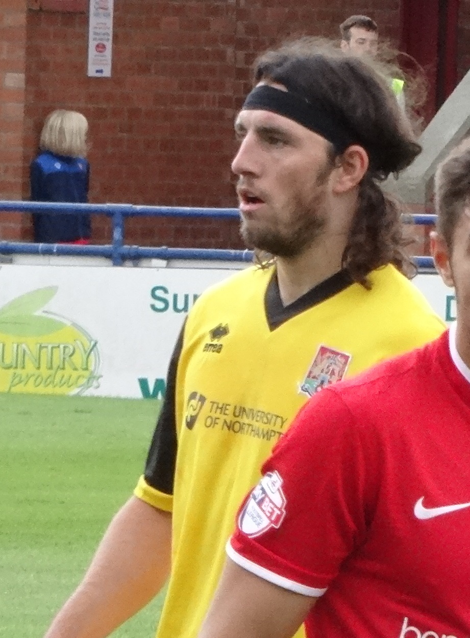 John-Joe O'Toole playing for Northampton Town against York City at Bootham Crescent, York on 16 August 2014